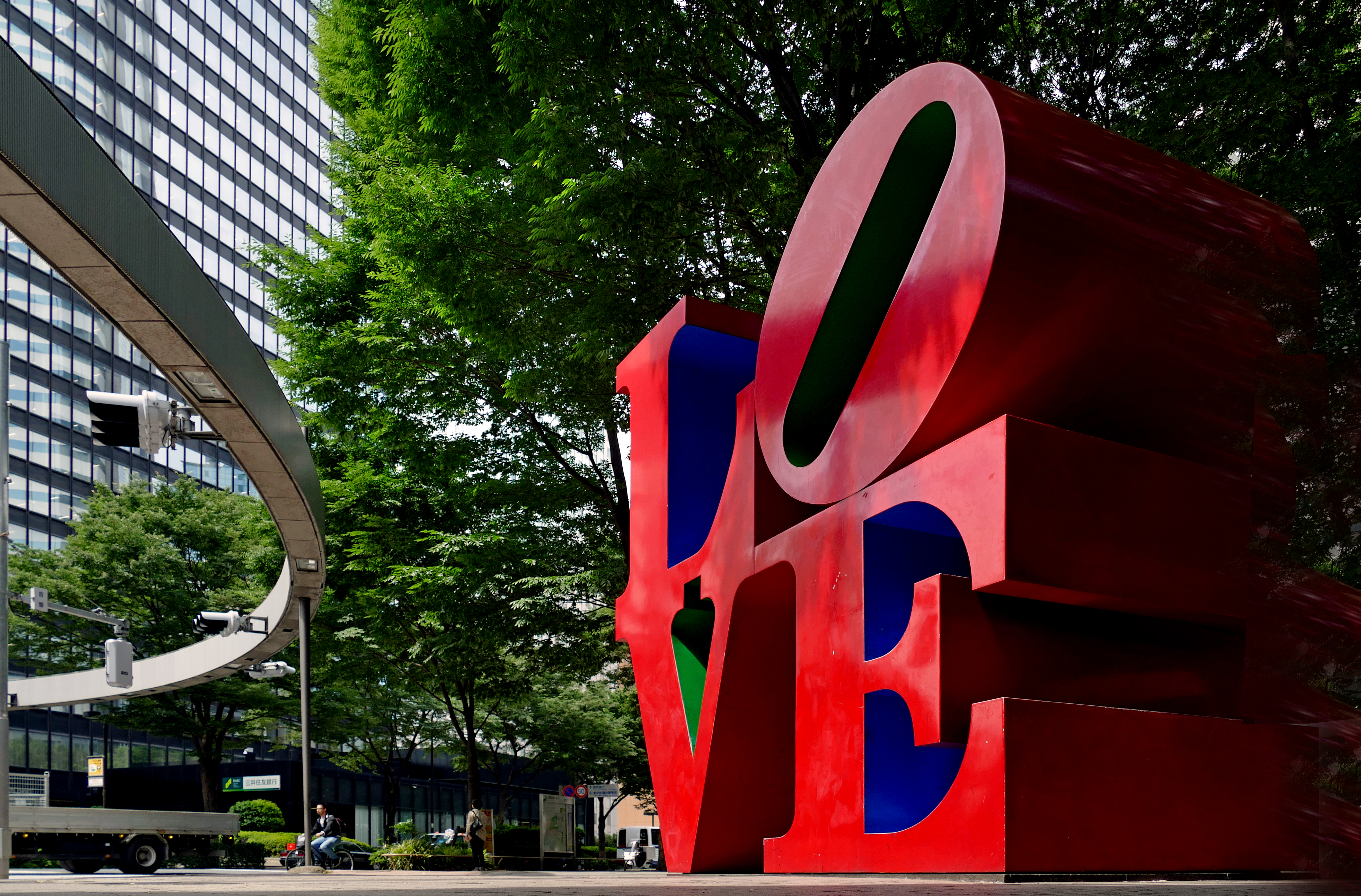 One of the best known series of public art works in the world, the LOVE sculpture created by the American artist Robert Indiana is present in Japan too, in Tokyo, near the Shinjuku I-LAND Tower.